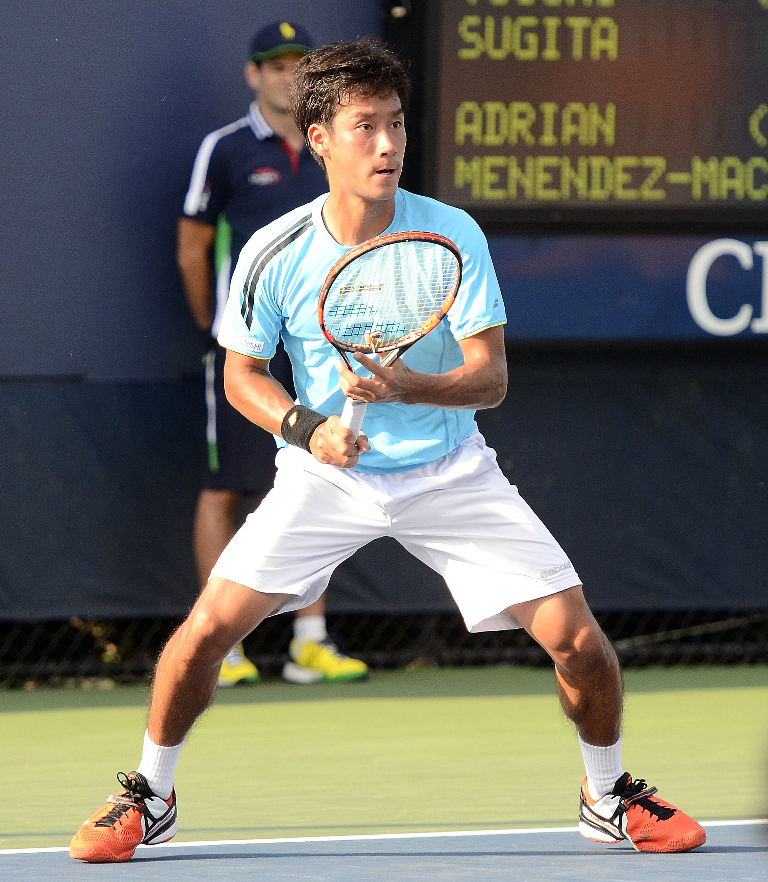 August 21, 2014 Queens, NY Yuichi Sugita (JPN) def. Adrian Menendez-Maceiras (ESP) This photo is from two days I went to the qualifying rounds ("the Qualies") for the US Open tennis tournament. There are hundreds more photos to come. (8/23/14)